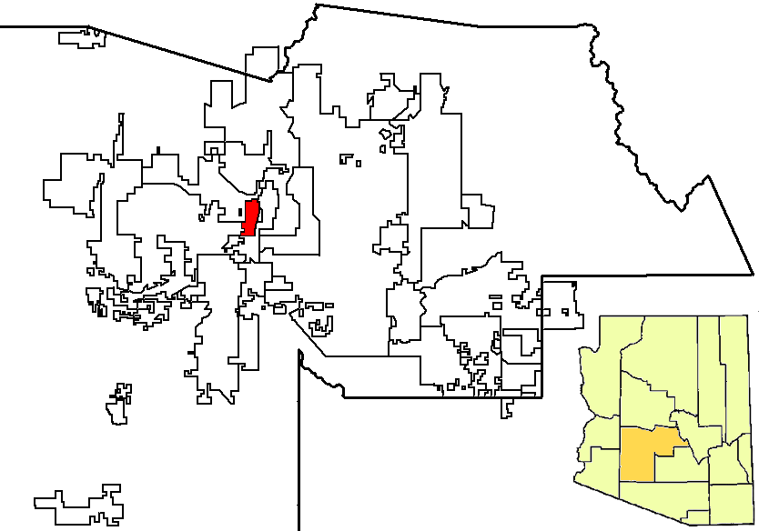 Map of approximate corporate boundary of El Mirage, Arizona, within Maricopa County